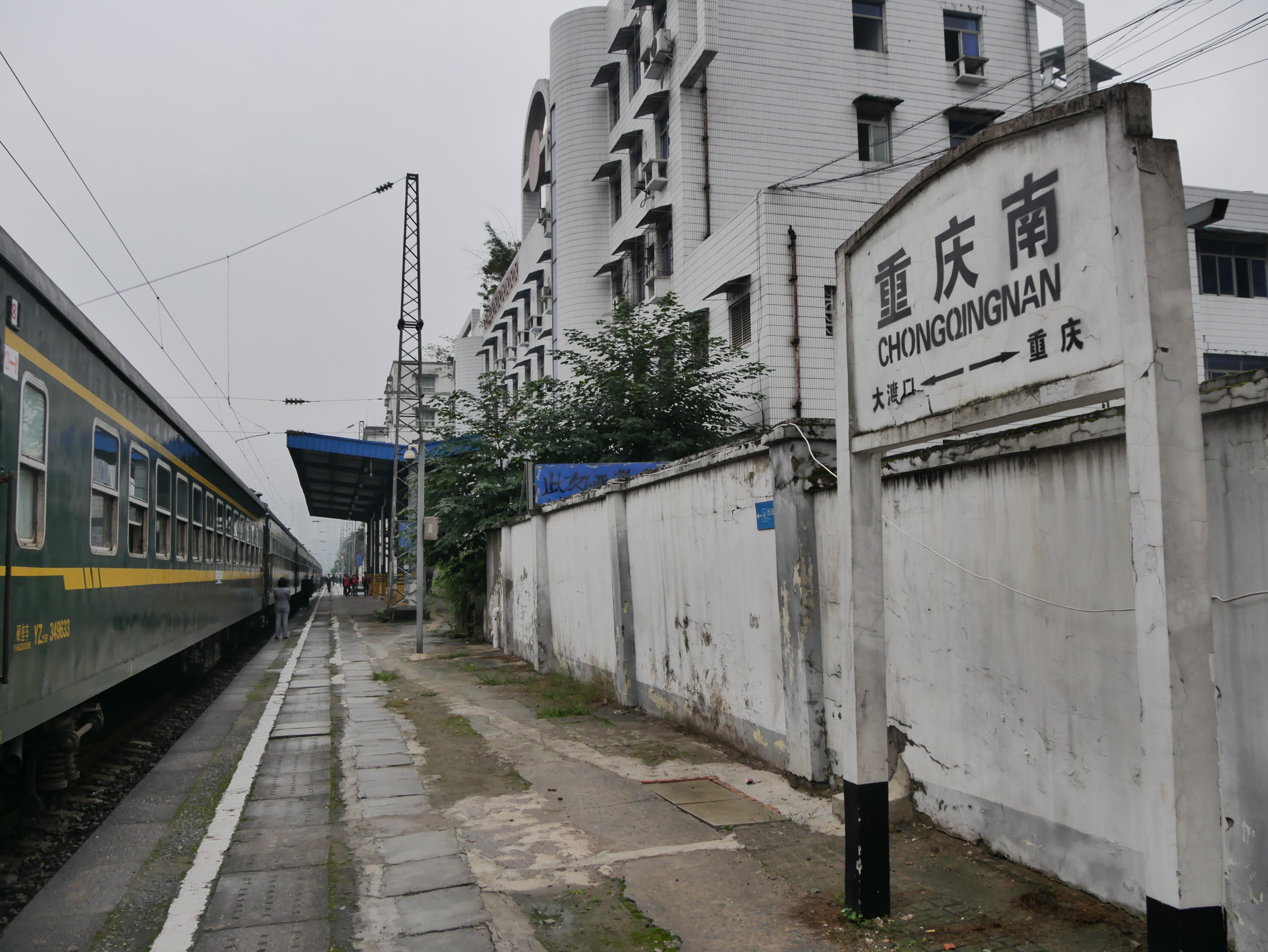 chongqing south station